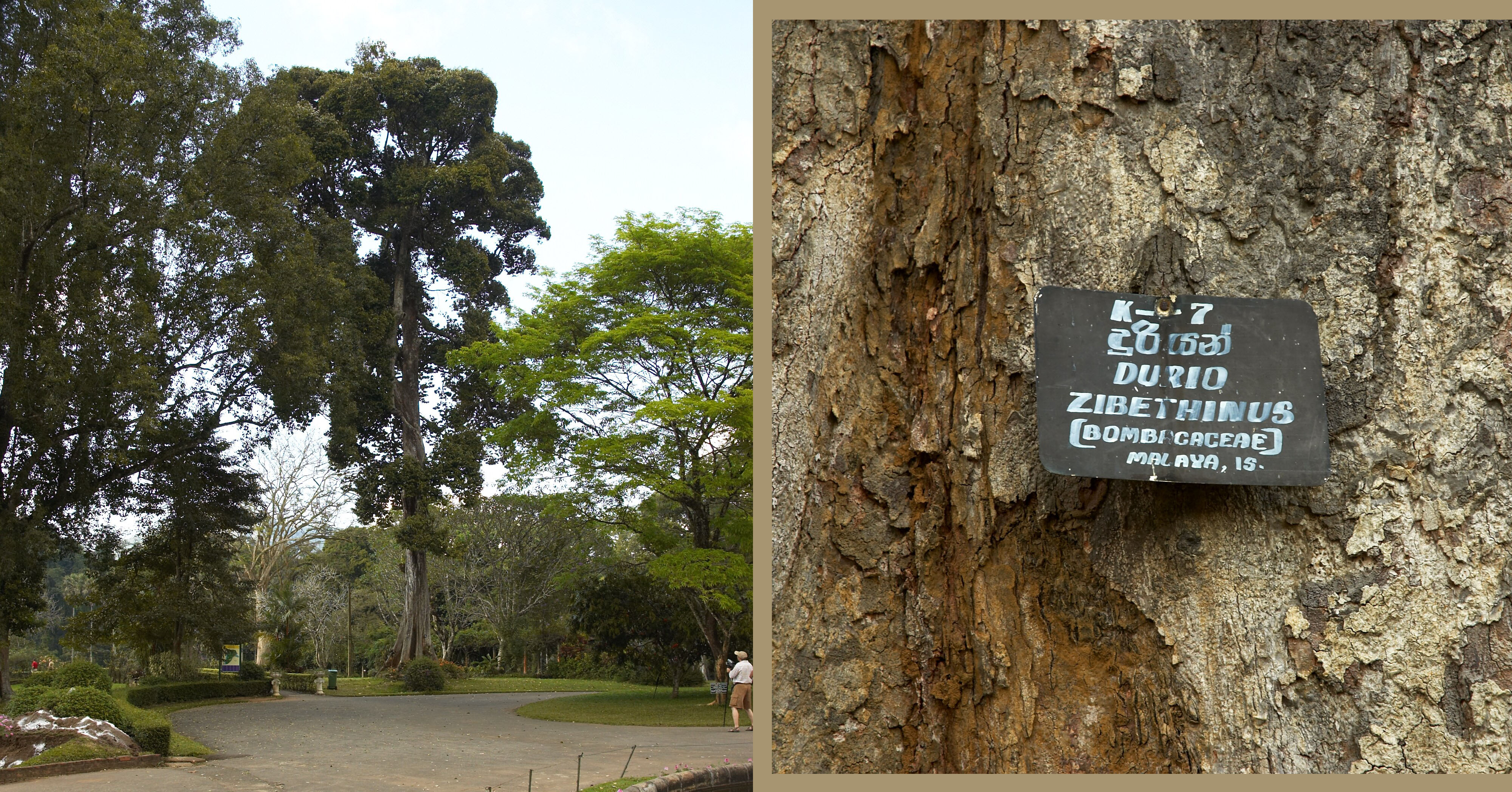 Large tree of Durio zibethinus in the botanic garden at Peradenia, a suburb of Kandy (Sri Lanka). - Google Maps - Google Earth